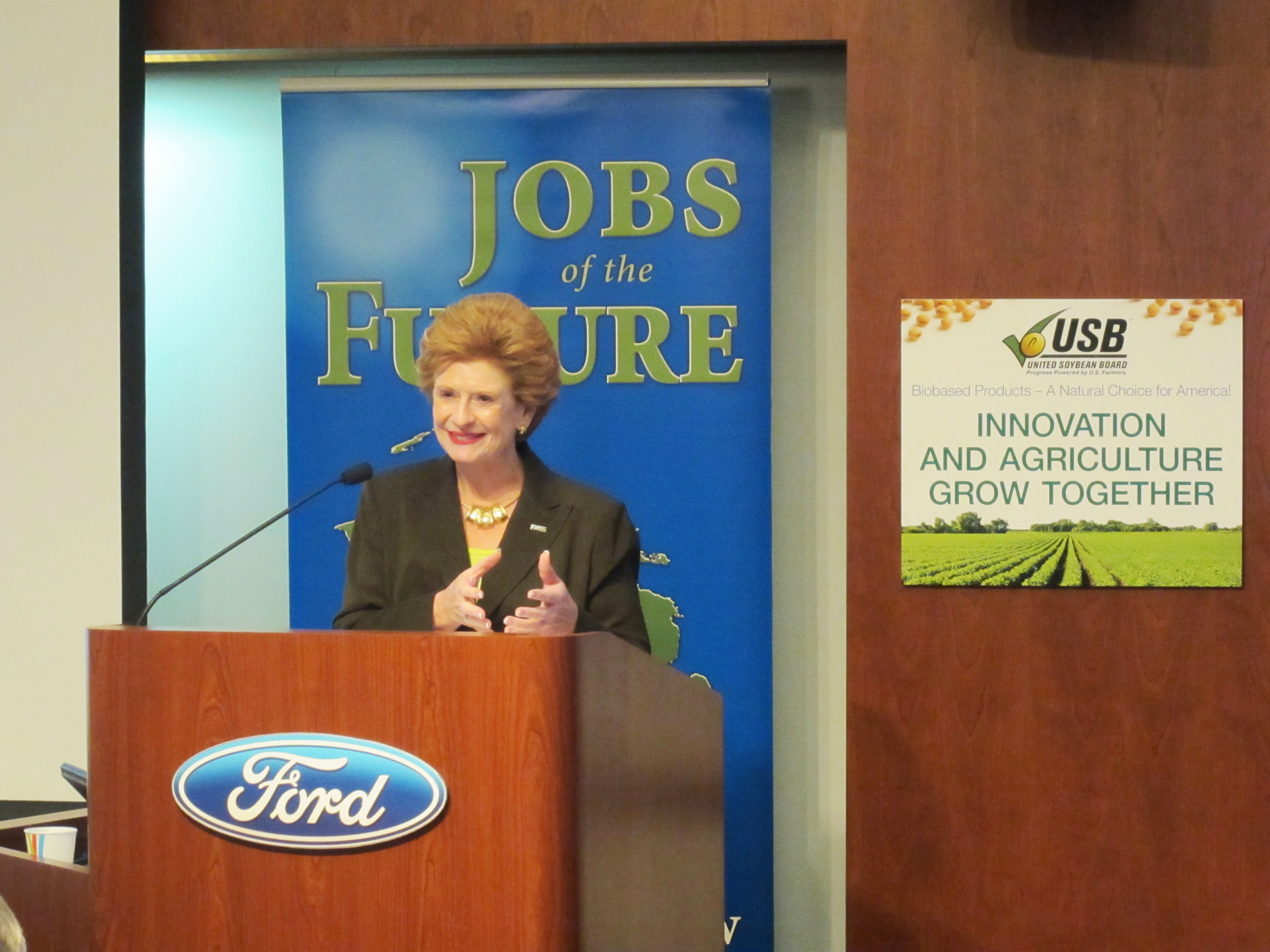 Senator Stabenow kicks off her Jobs of the Future Tour at Ford's cutting-edge bio-based manufacturing lab in Dearborn. This photograph is provided by the Office of U.S. Senator Debbie Stabenow.